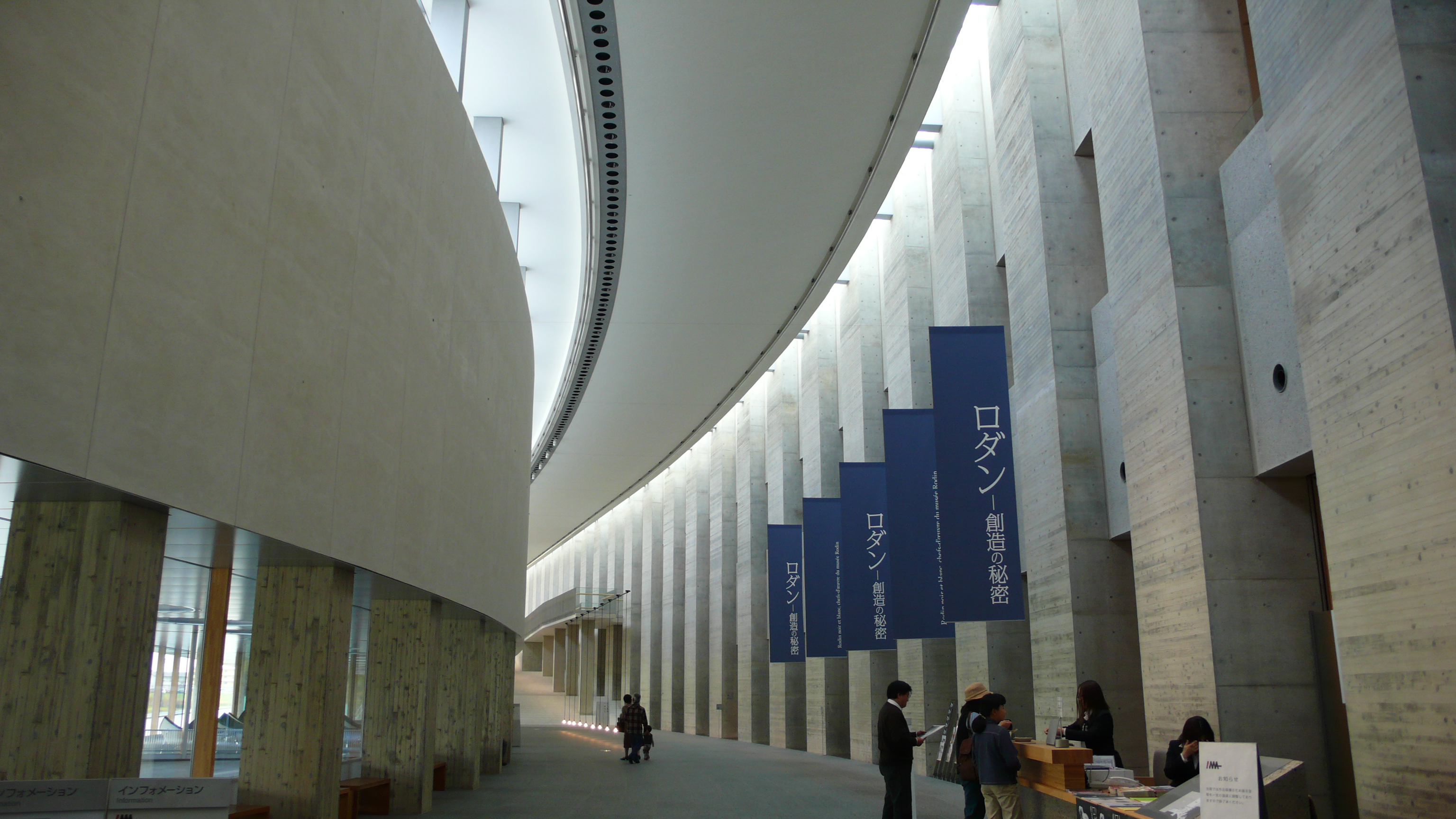 Iwate Museum of Art in Morioka-shi, Iwate pref., Japan.